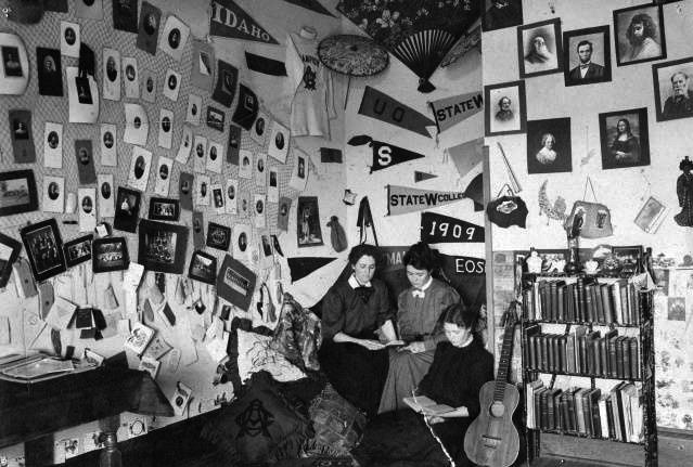 Oregon State University students. From left to right: Faye Roadruck '08; Jessie Davidson '09; Gertrude Davidson '08. Photo was used in the 1908-1909 college catalog in the picture section.